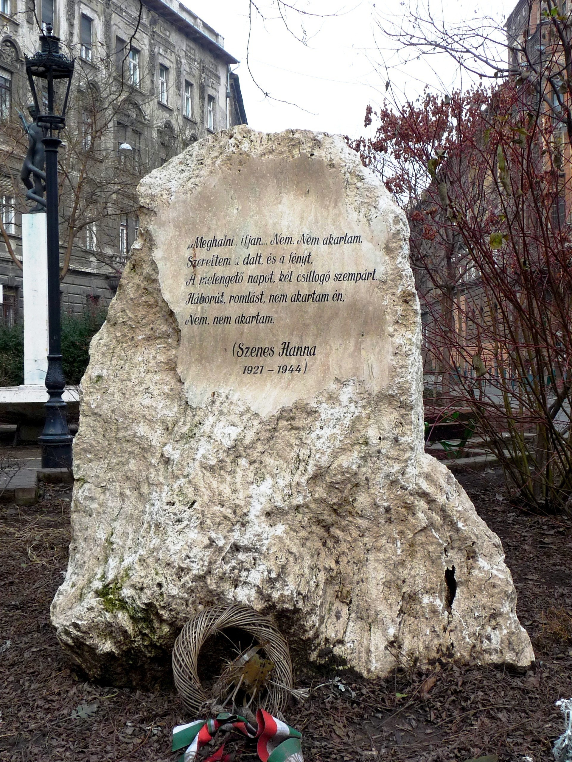 Memorial stone to Miss Hannah Szenes (1921-1944), martyred victim of the Holocaust, in the park bearing her name (Budapest, District VII, Park Szenes Hanna [at the cross of streets Jósika and Rózsa]). On the stone a quote from her poem can be read: "Die... an early death... No, I didn't want. I loved the song and the light, The warming sun, two shining eyes. War, havoc, I didn't want, No, I didn't want." The memorial was inaugurated on December 21, 2009.